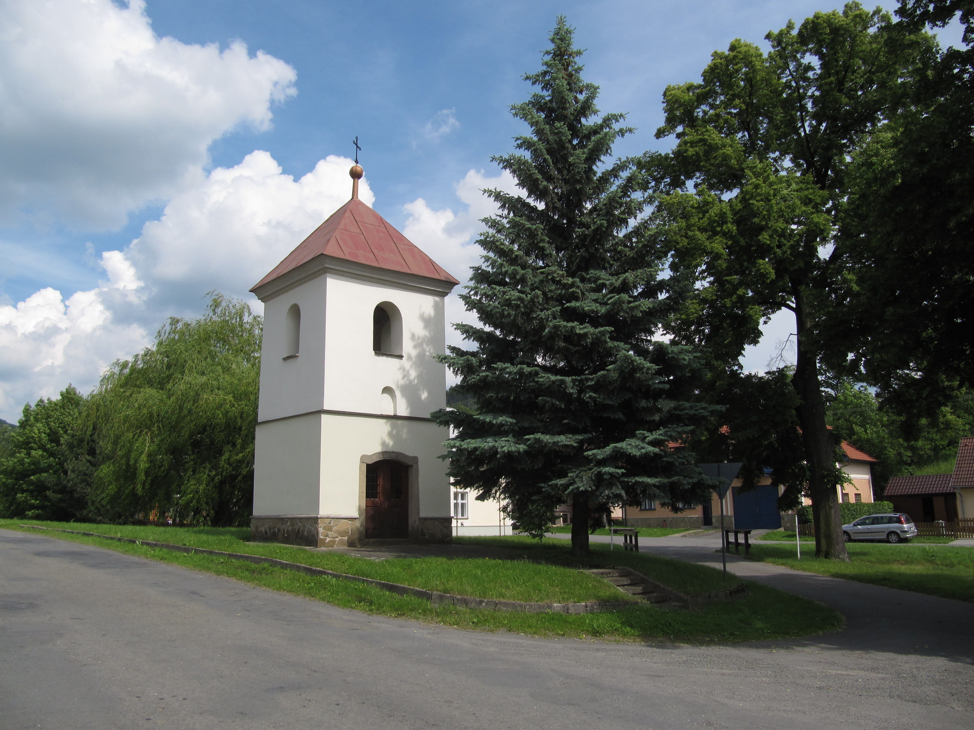 Brusné, Kroměříž District, Czech Republic.